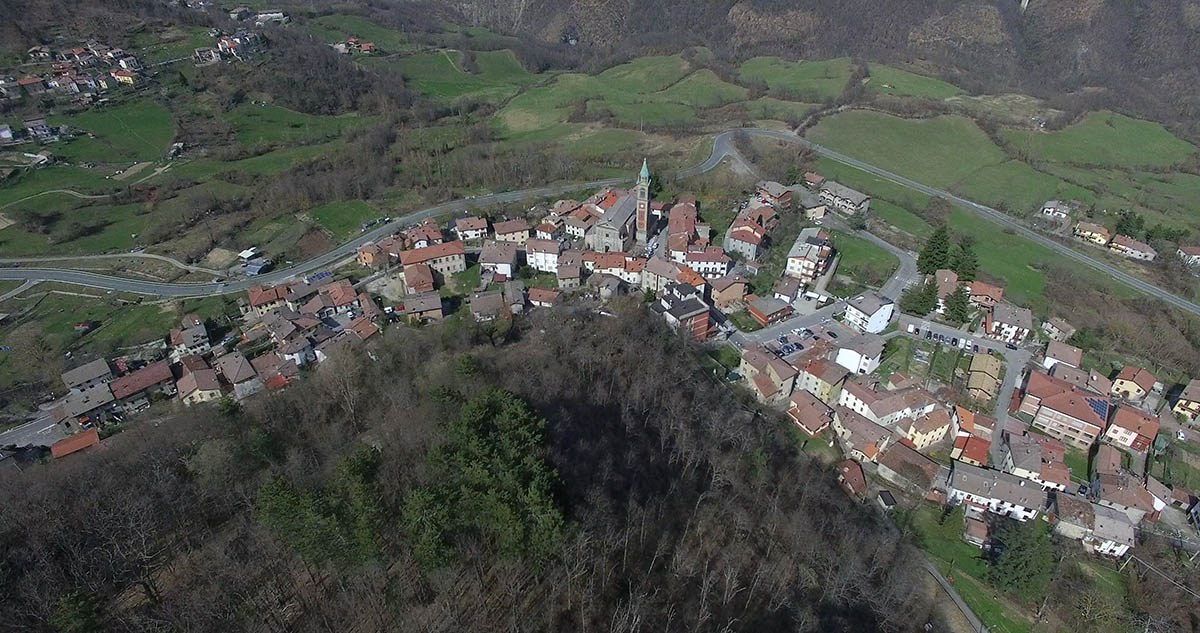 Baragazza